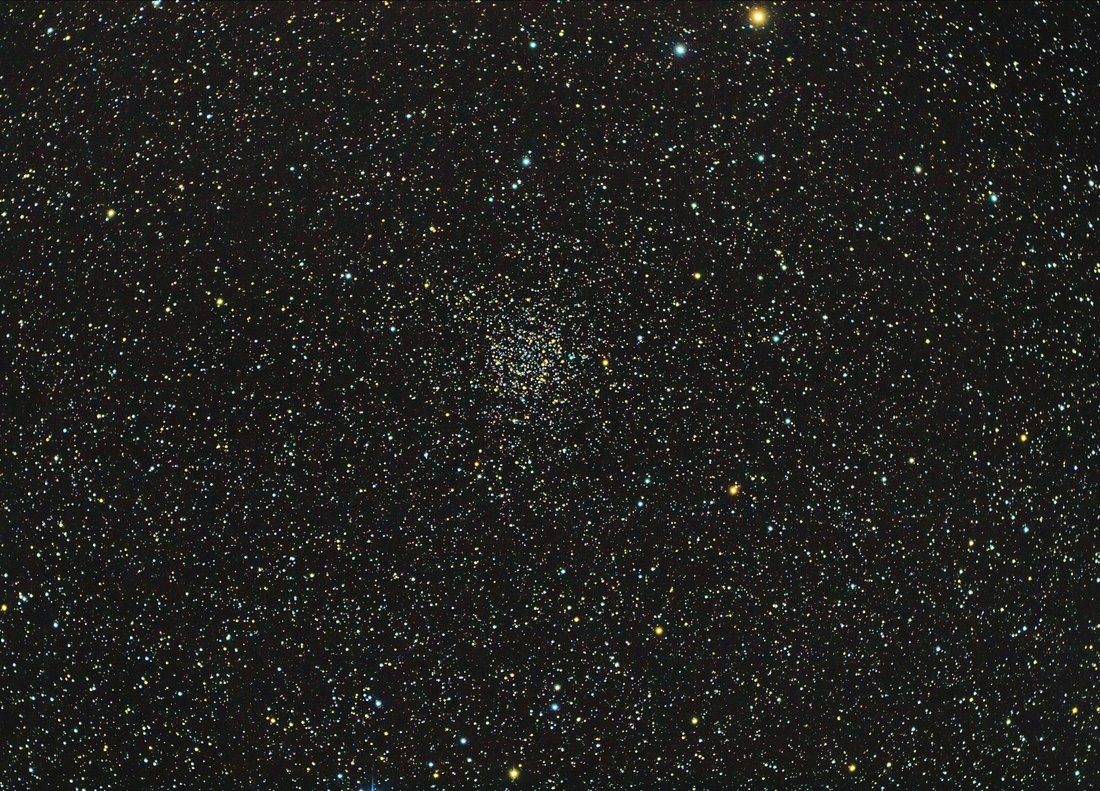 NGC 7789 in Cassiopeia Taken with Modded 350D and Orion ED80 Telescope